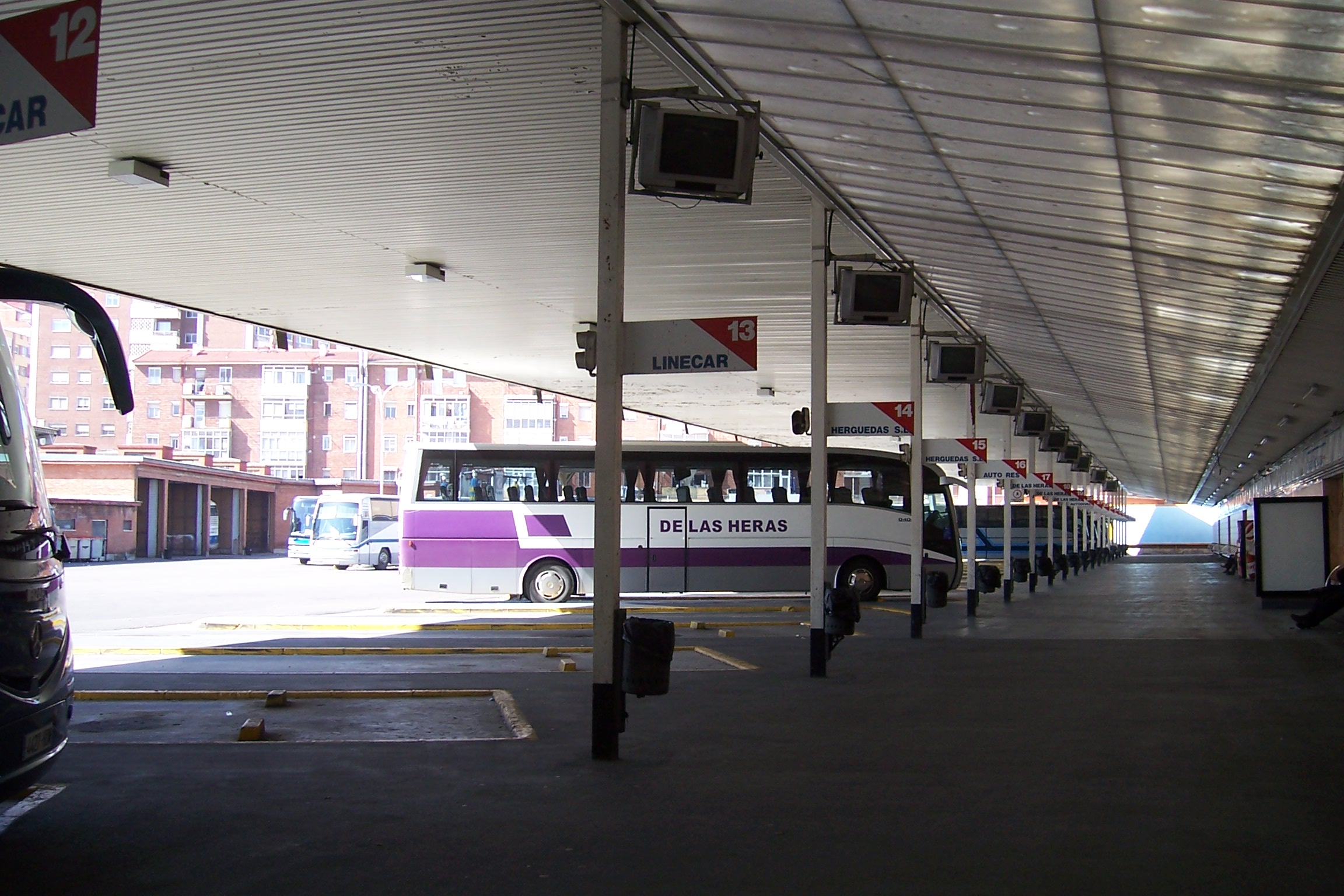 Bus station in the city of Valladolid (Spain).